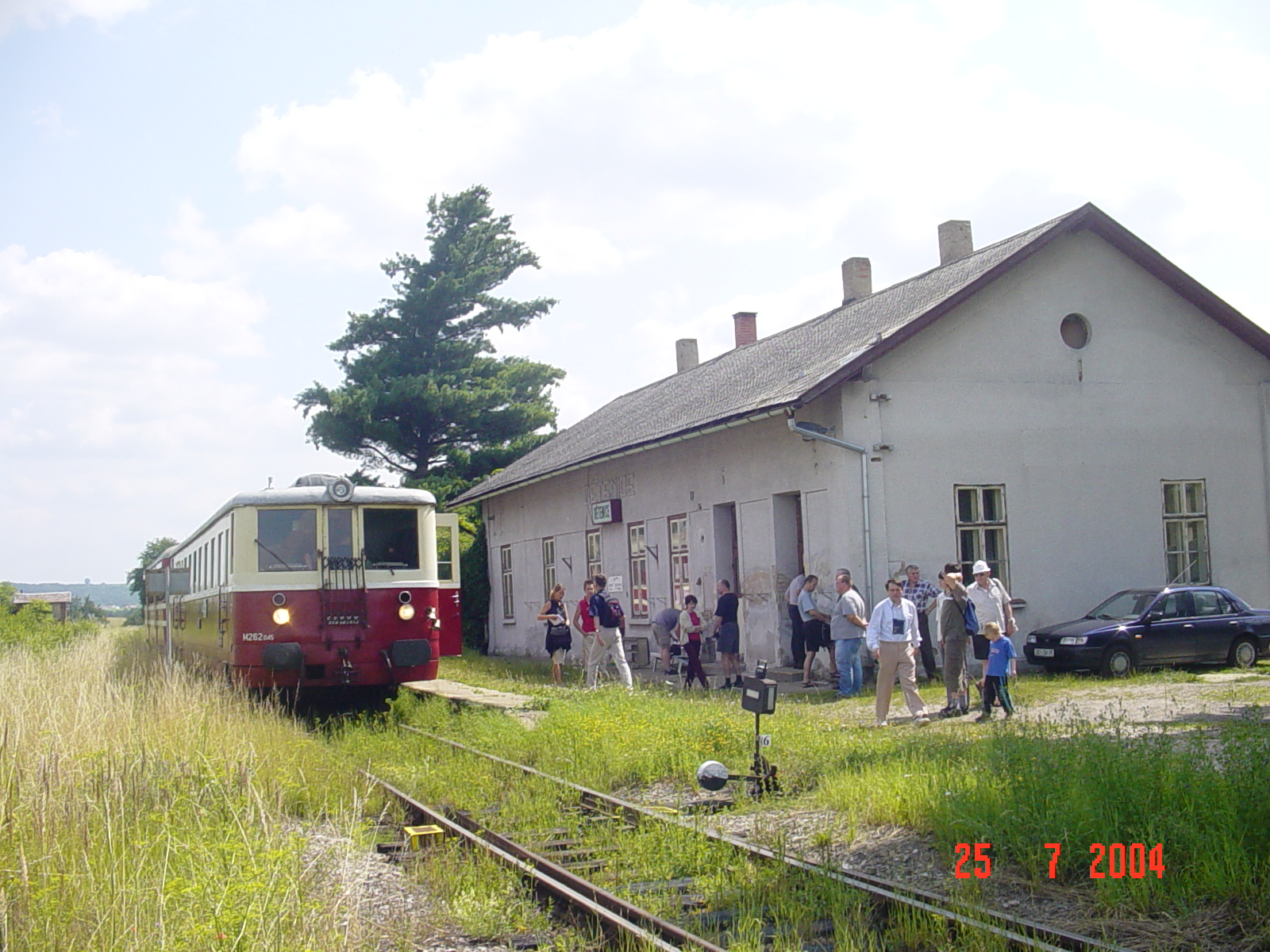 Train stop in Dětenice, Czech Republic on a Kopidlno - Bakov nad Jizerou line. In the past, it also used to be a starting point of a secondary line Rokytňany jct - Dobrovice město, abandoned after 1974 [1]. The picture shows a historical railcar during a railfan tour around Bohemia and Southern Poland in 2004.